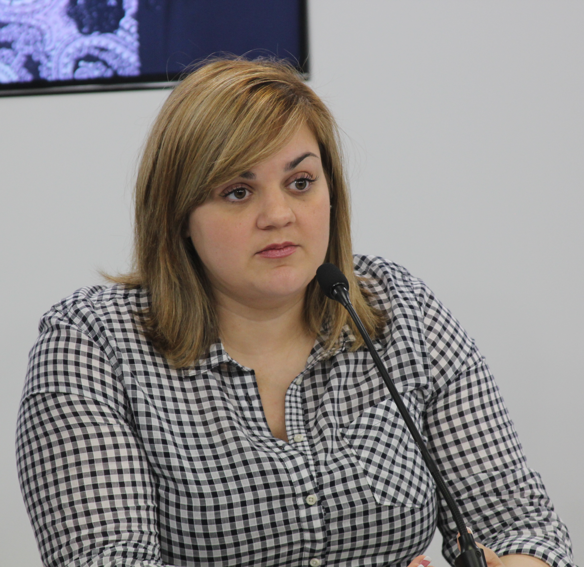 American author and anti-abortion activist Abby Johnson (activist) speaks at Spanish anti-abortion organization HazteOir.